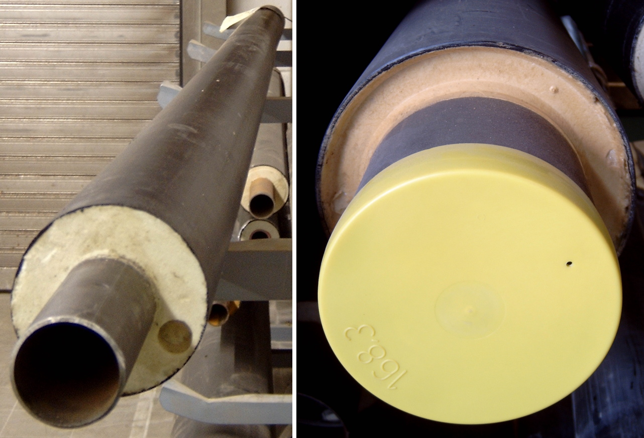 brand-new preinsulated bonded pipe systems; left DN50/125, right DN150/250